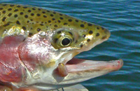 Rainbow trout that was caught before and released. See healed mouth extension.